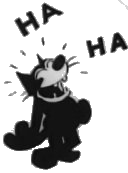 Felix The Cat (detail). A scene of Felix "laffing" from "Felix in Hollywood" (1923). TRANSPARENT BACKGROUND